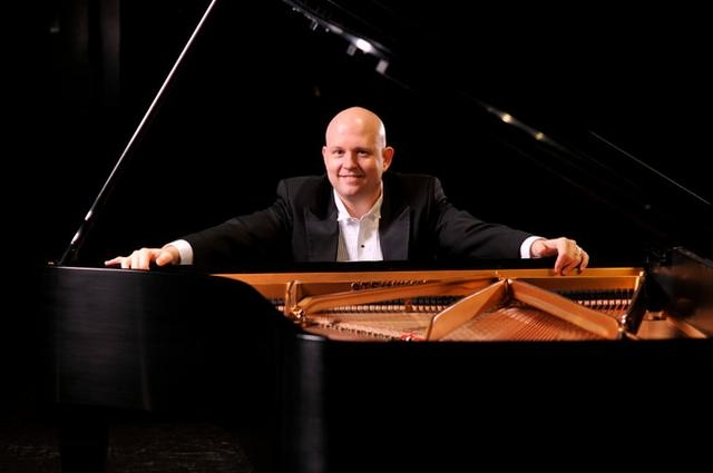 A photo of my teacher Steven Spooner